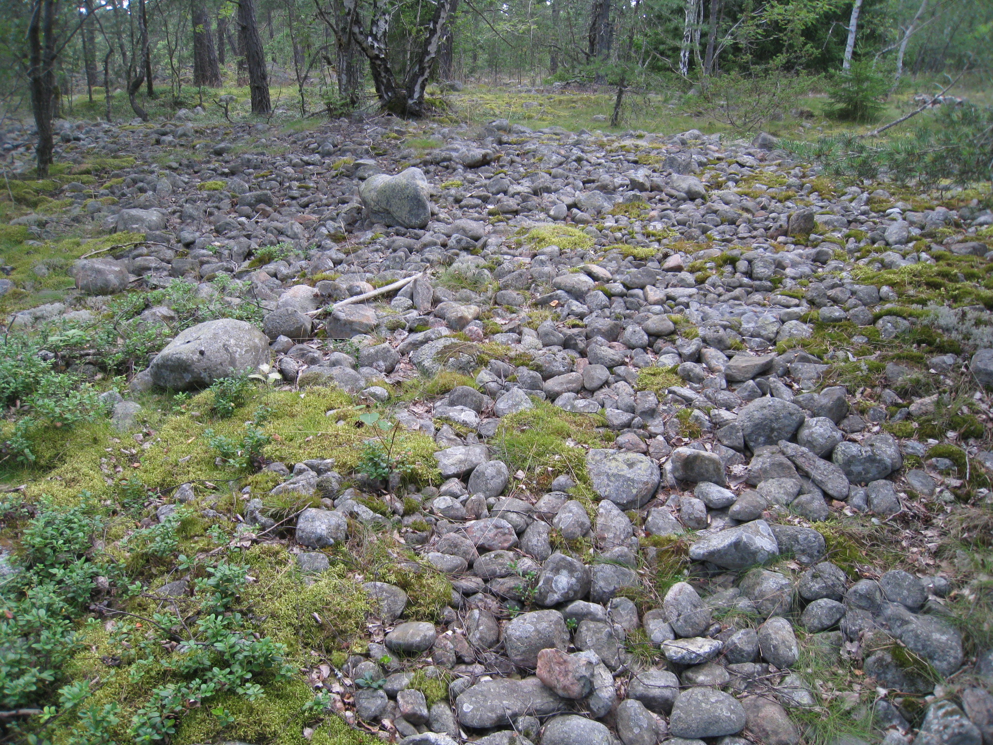 Cobblestones in Hummelmoraberget, Viksjö, Järfälla Municipality, Stockholm County.